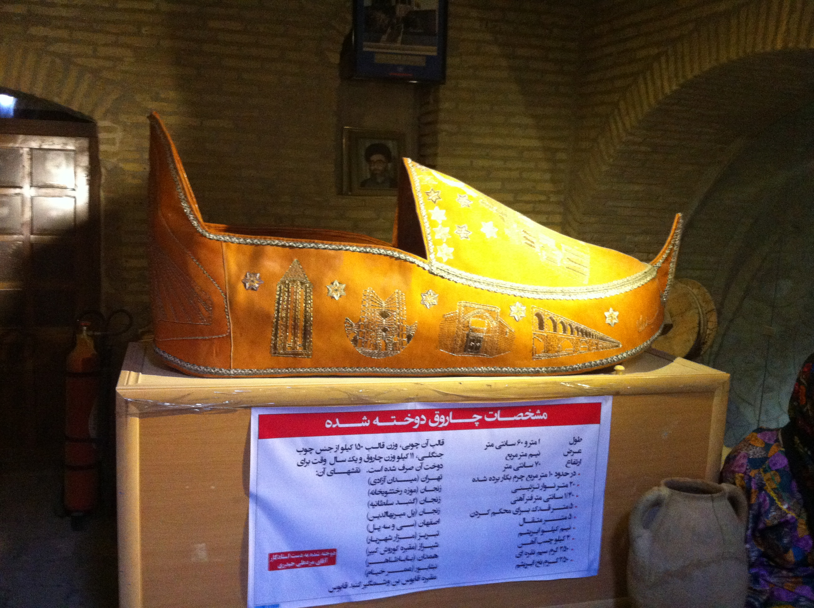 Historical Edifice of Rakhtshooy Khaneh which in means wash-house lies at the historical texture of the Zanjan city